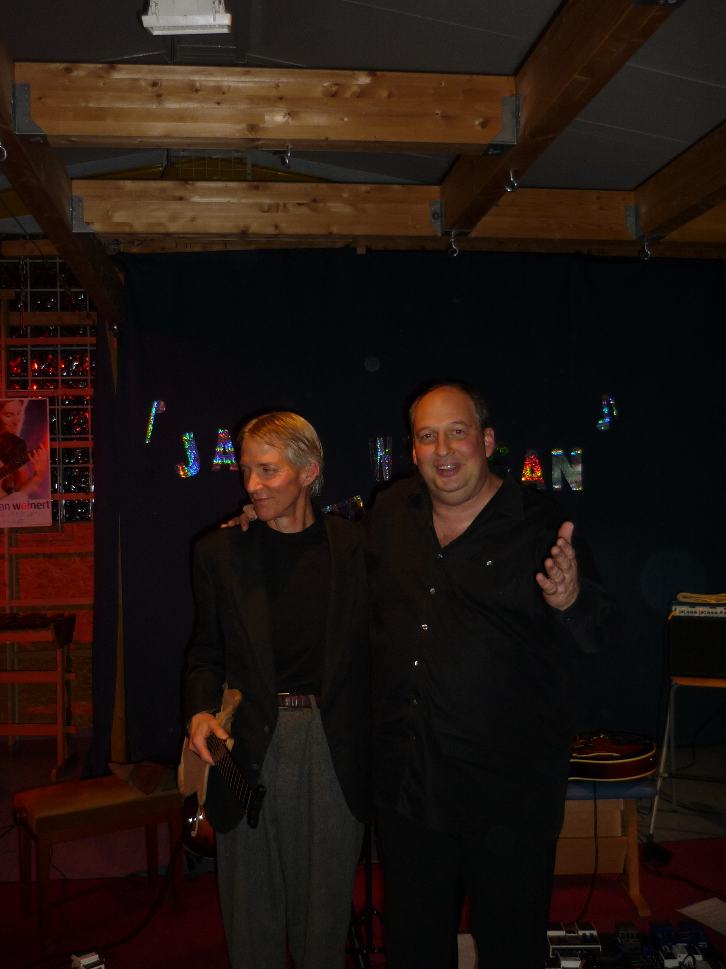 Frank Haunschild and John Stowell at an appearance in Bad Marienberg (Westerwald), November 2010